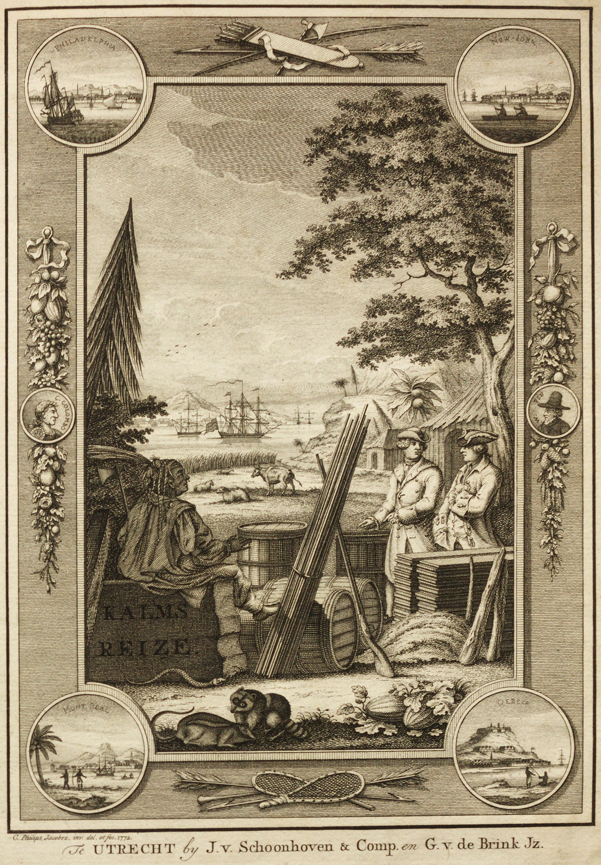 Frontispiece of the 1772 Dutch translation of Pehr Kalm (1753–1761): En Resa til Norra America ["A travel to Northern America"].